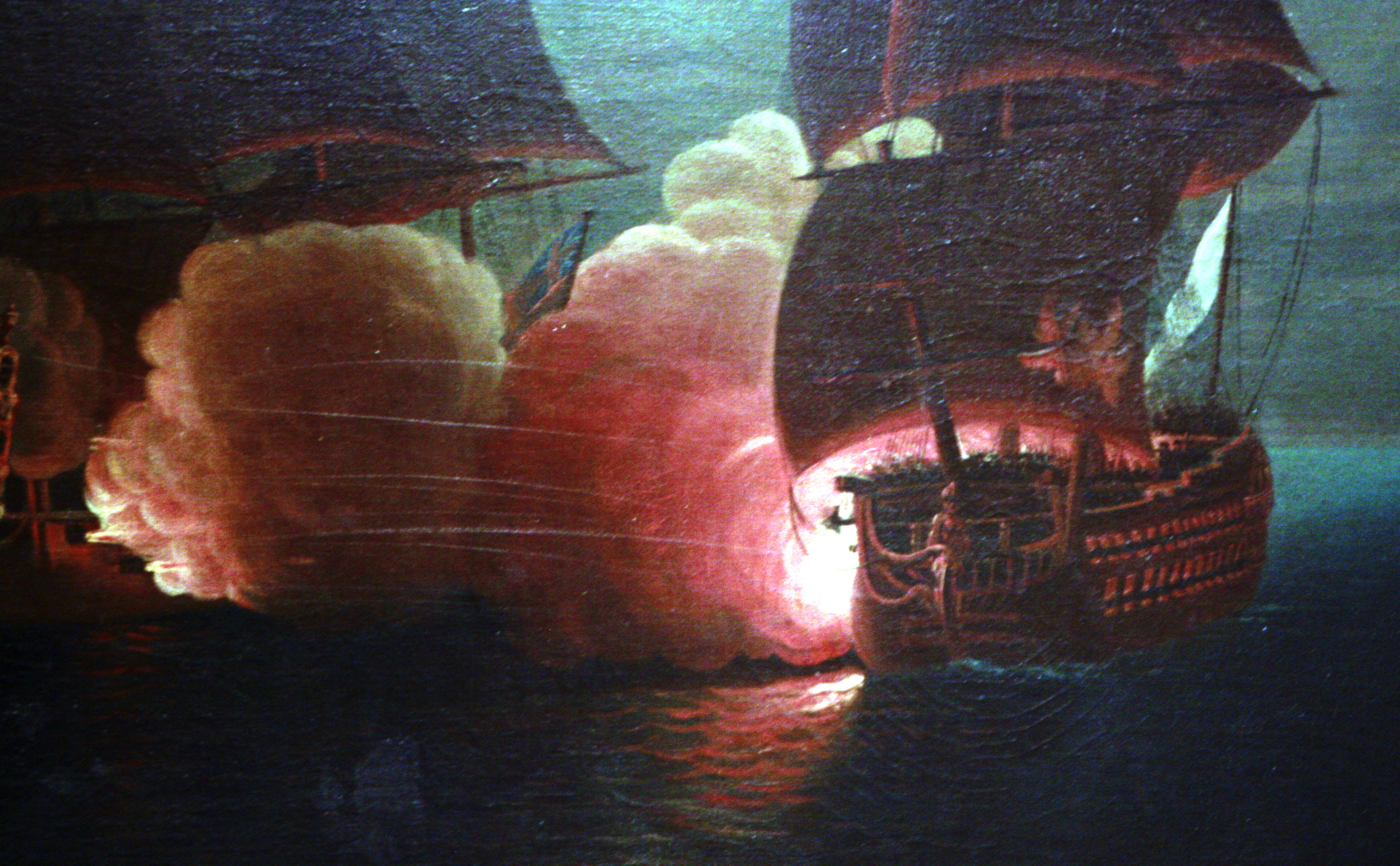 Action of 18 October 1782 between the 74-gun Scipion and the 90-gun HMS London. Oil on canvas, 18th century On display at Toulon naval museum. Access number 3 OA 54.